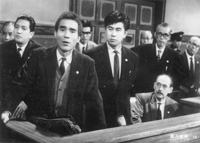 Jukichi Uno (The front) and Ken Utsui (The right) in 1961 Japanese movie Matsukawa incident